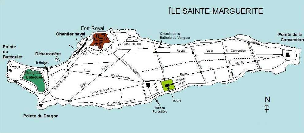 Plan de l'île Sainte-Marguerite Removed border and text "© G. Dulous".